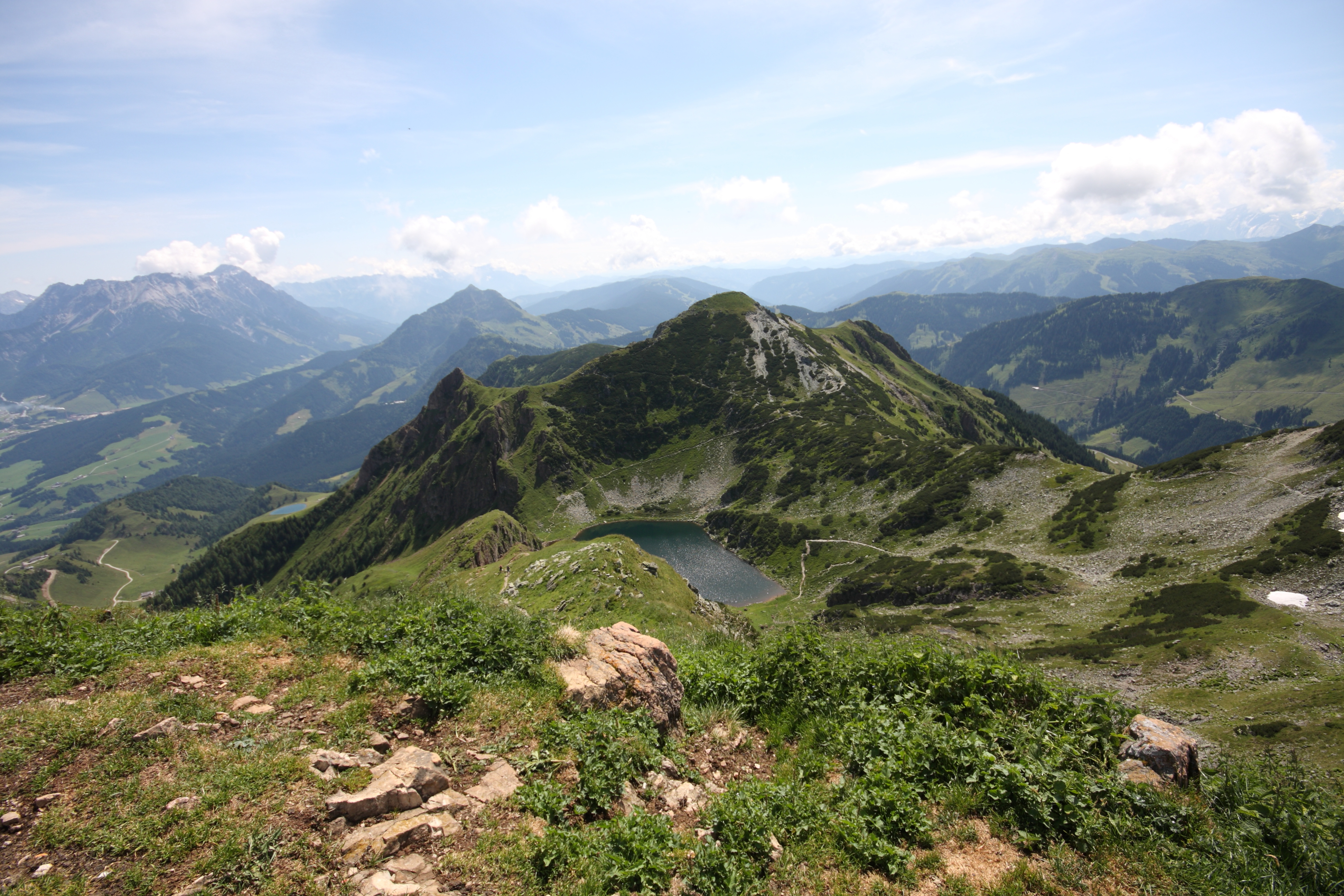 Wildsee 1847 m, Kitzbüheler Alpen, Austria